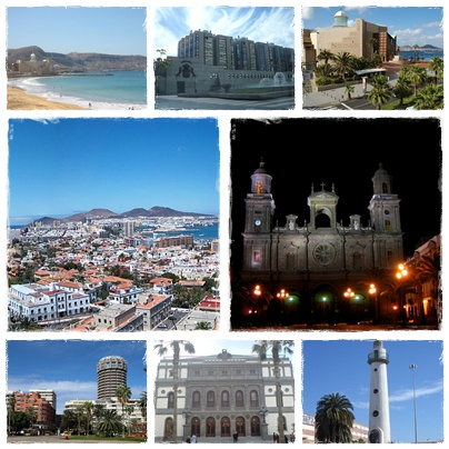 Photos of places in Las Palmas de Gran Canaria, Gran Canaria, Canary Islands, Spain: 1- The Canteras. 2- Canary Islands's government headquarters in Las Palmas de Gran Canaria. 3- "Alfredo Kraus" auditorium. 4- Panoramic view over Las Palmas de Gran Canaria. 5- Cathedral of Las Palmas de Gran Canaria, and Santa Ana Square. 6- Saint Catalina Square (Plaza Santa Catalina). 7- Pérez Galdós theatre. 8- Lighthouse and monument allegorical to Belén María (Federico Hernández Corujo, 1982); rotunda entry to the port of Las Palmas, next to gardens access to old "Muelle Grande".